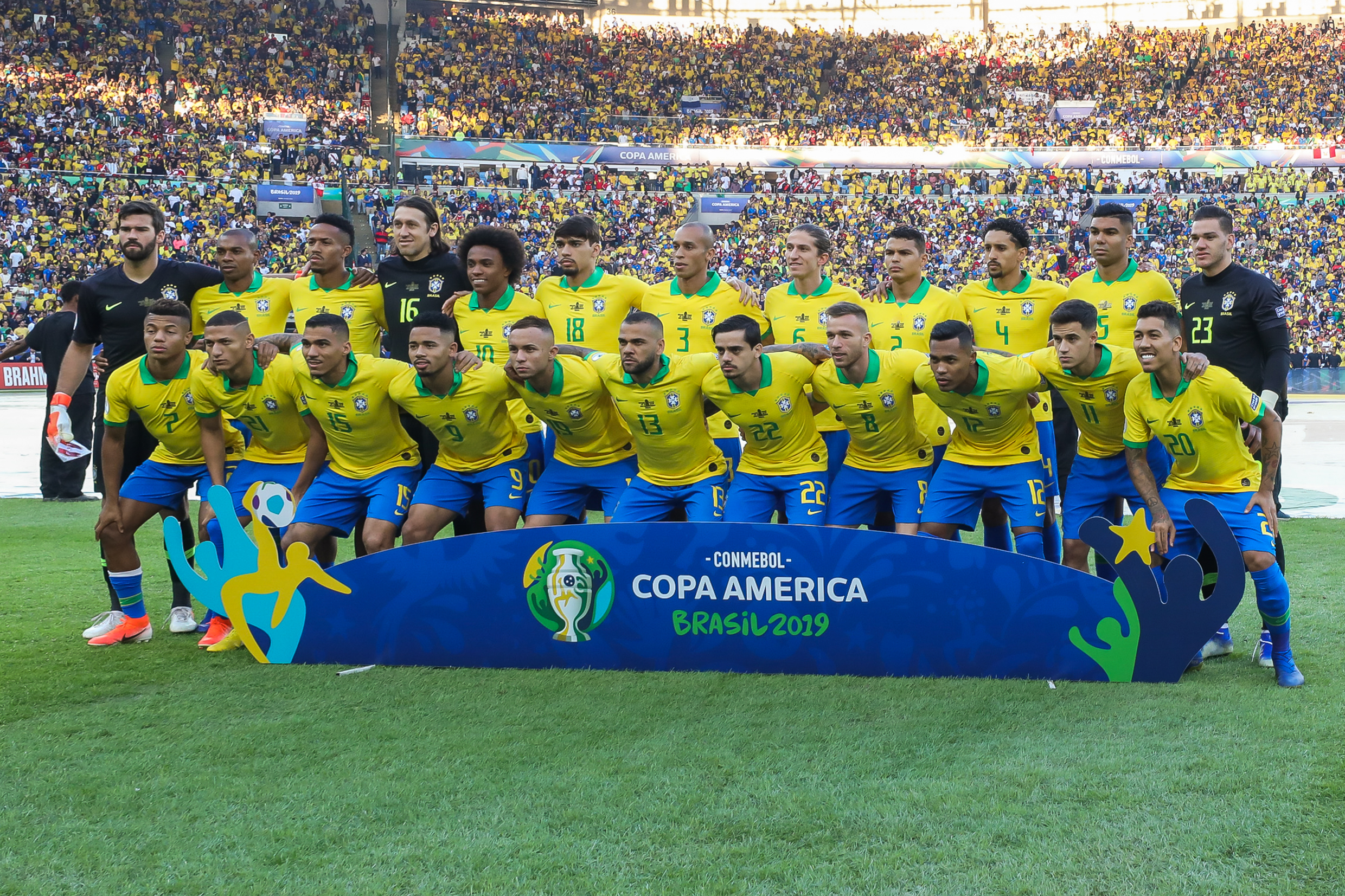 (Rio de Janeiro - RJ, 07/07/2019) Presidente da República, Jair Bolsonaro, durante a final da Copa América 2019, entre as seleções do Brasil e Peru. Foto: Clauber Cleber Caetano/PR